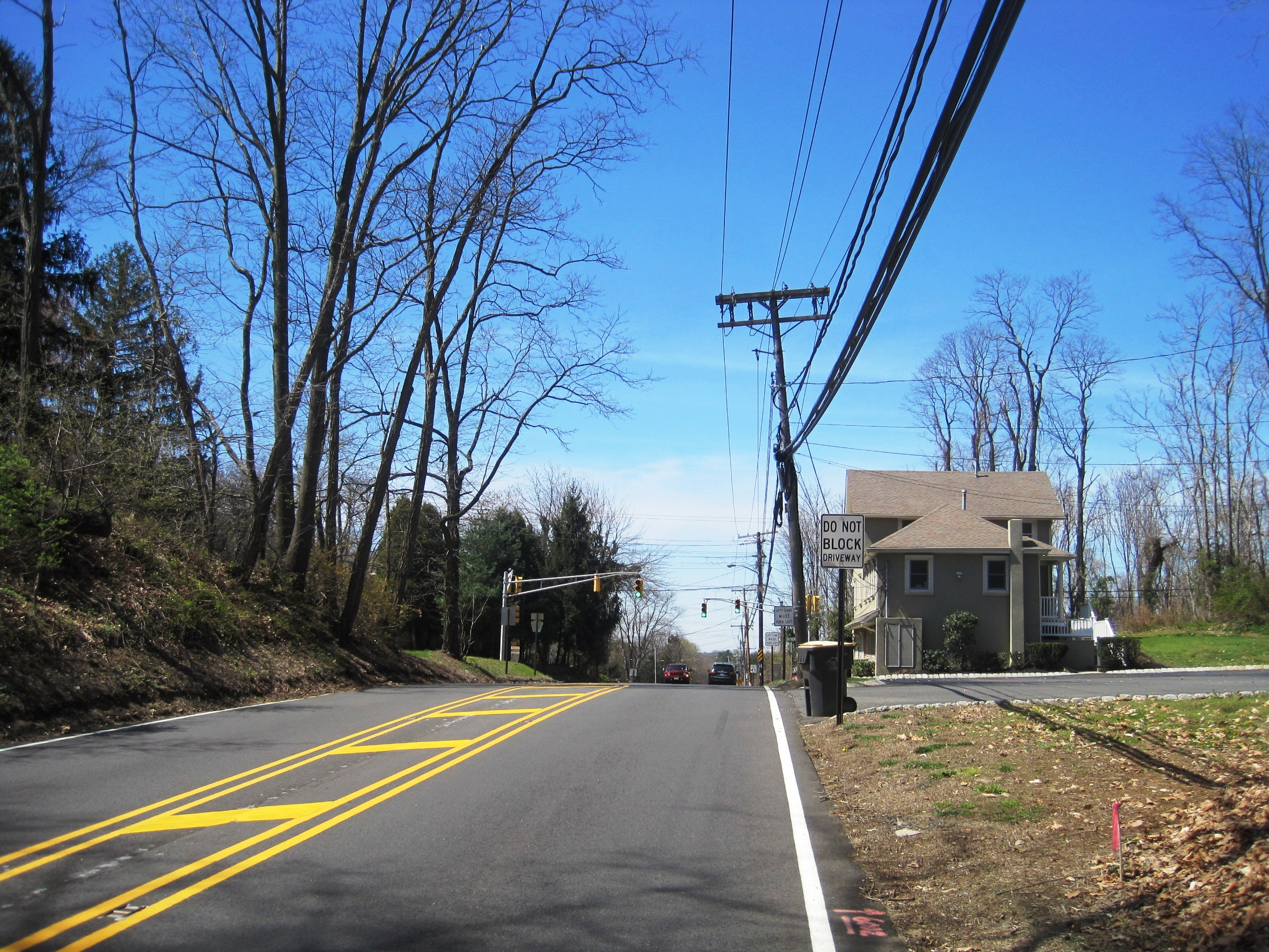 Photo of Hillsdale, an unincorporated community on the border of Colts Neck Township (immediately to left) and Marlboro Township (to the right and ahead of the intersection) in Monmouth County, New Jersey. Photo taken along westbound County Route 520 approaching Boundary Road and Conover Road.